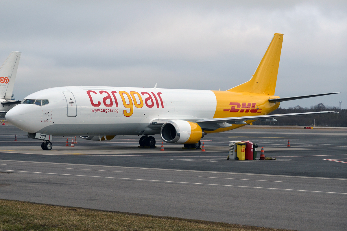 Cargo Air, LZ-CGU, Boeing 737-448 SF